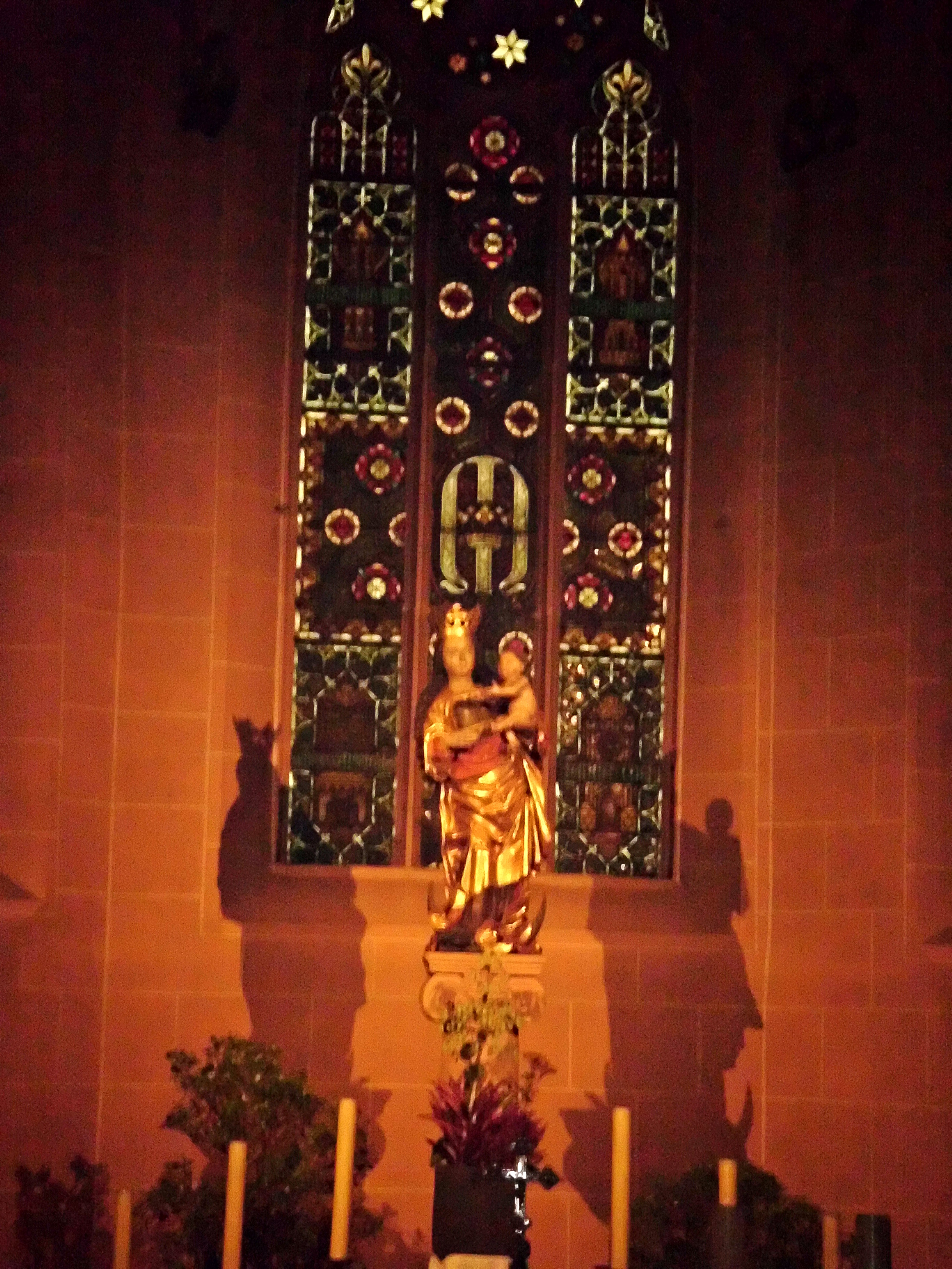 Altarraum mit 2. Gnadenbild